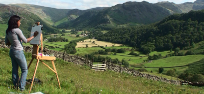 Olivia Peguero working on "Summer Hay in Borrowdale" England 2003